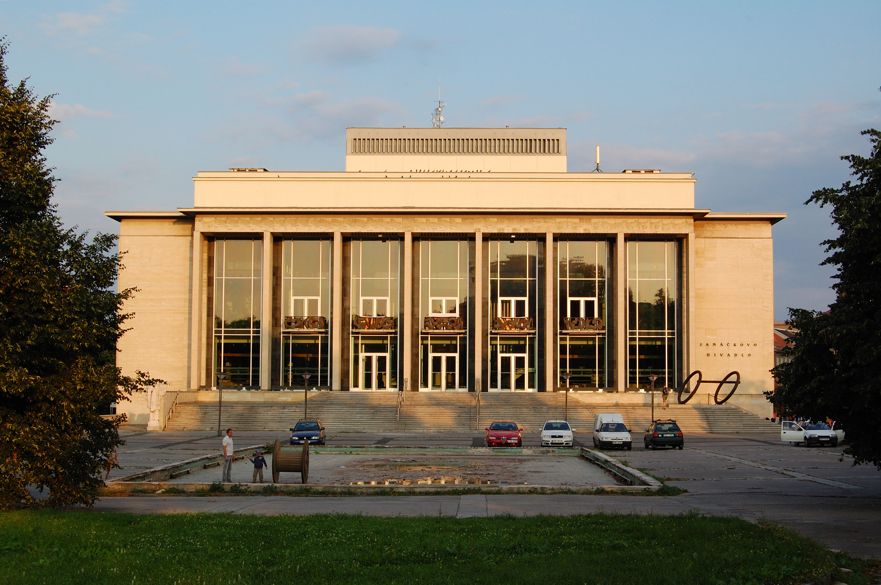 Leoš Janáček's theatre in Brno, Czech Republic.